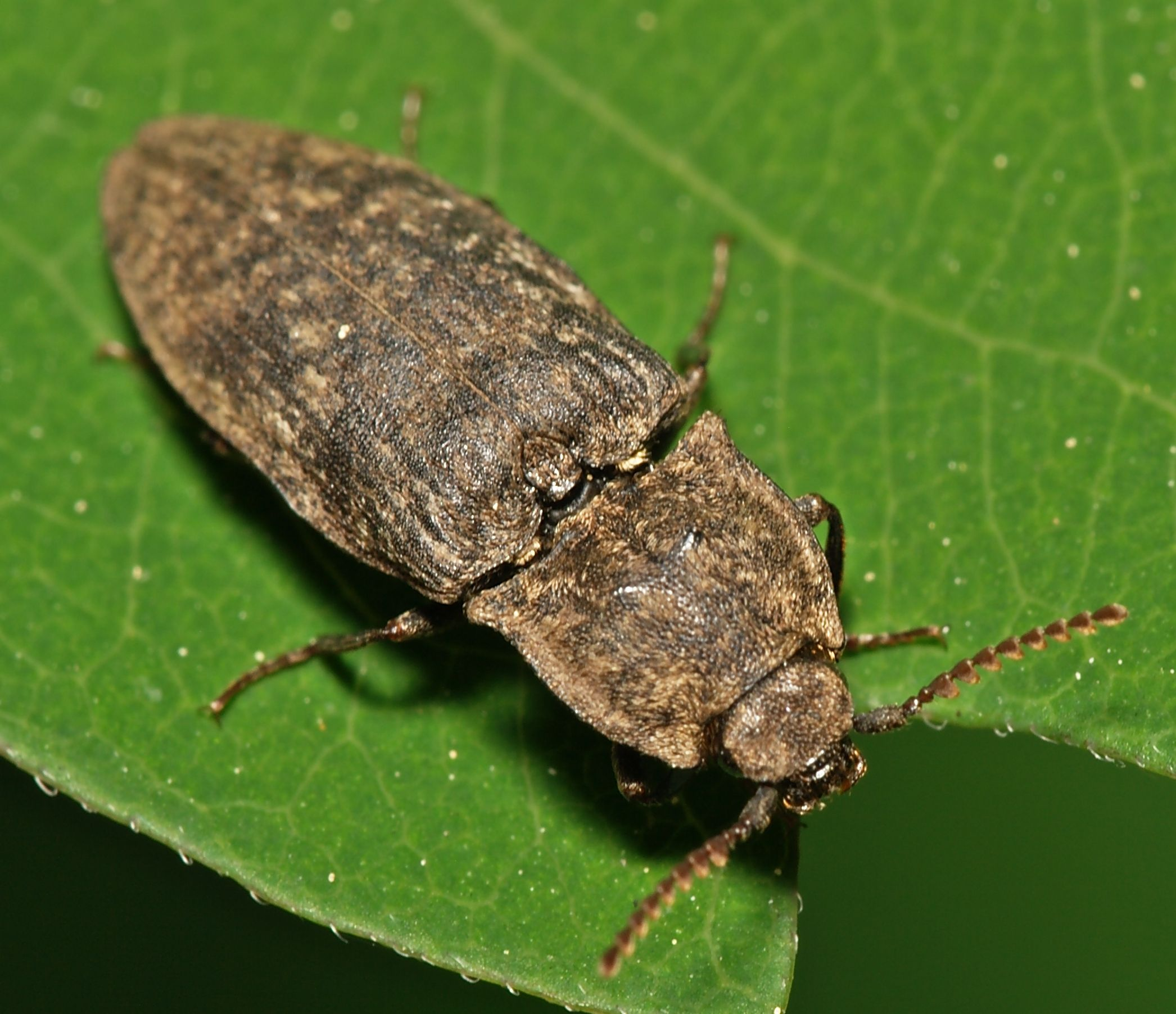 Agrypnus murinus from Cologne, Germany.